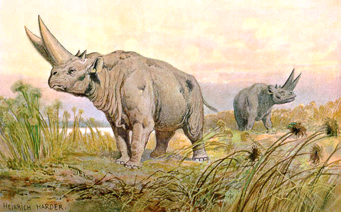 This reproduction of a painting of an undetermined species of Arsinoitherium was made to illustrate one card of a set of 30 collector cards from "Tiere der Urwelt" (Animals of the Prehistoric World). From the Series III.